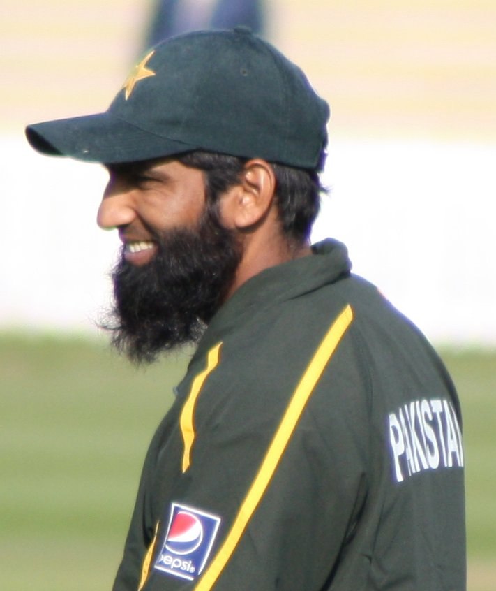 Mohammad Yousuf prepares for a batting net prior to a 50-over warm-up match against Somerset at the County Ground, Taunton, during Pakistan's 2010 tour of England.